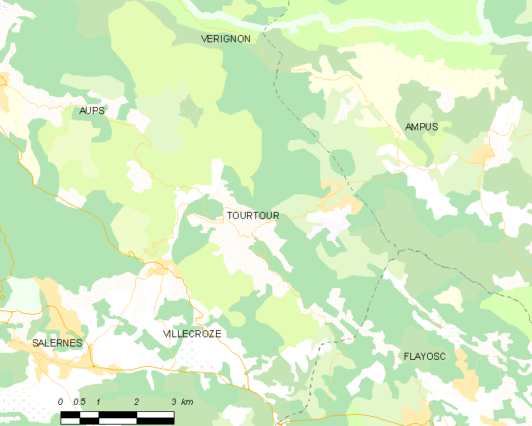 Map of French municipality Tourtour